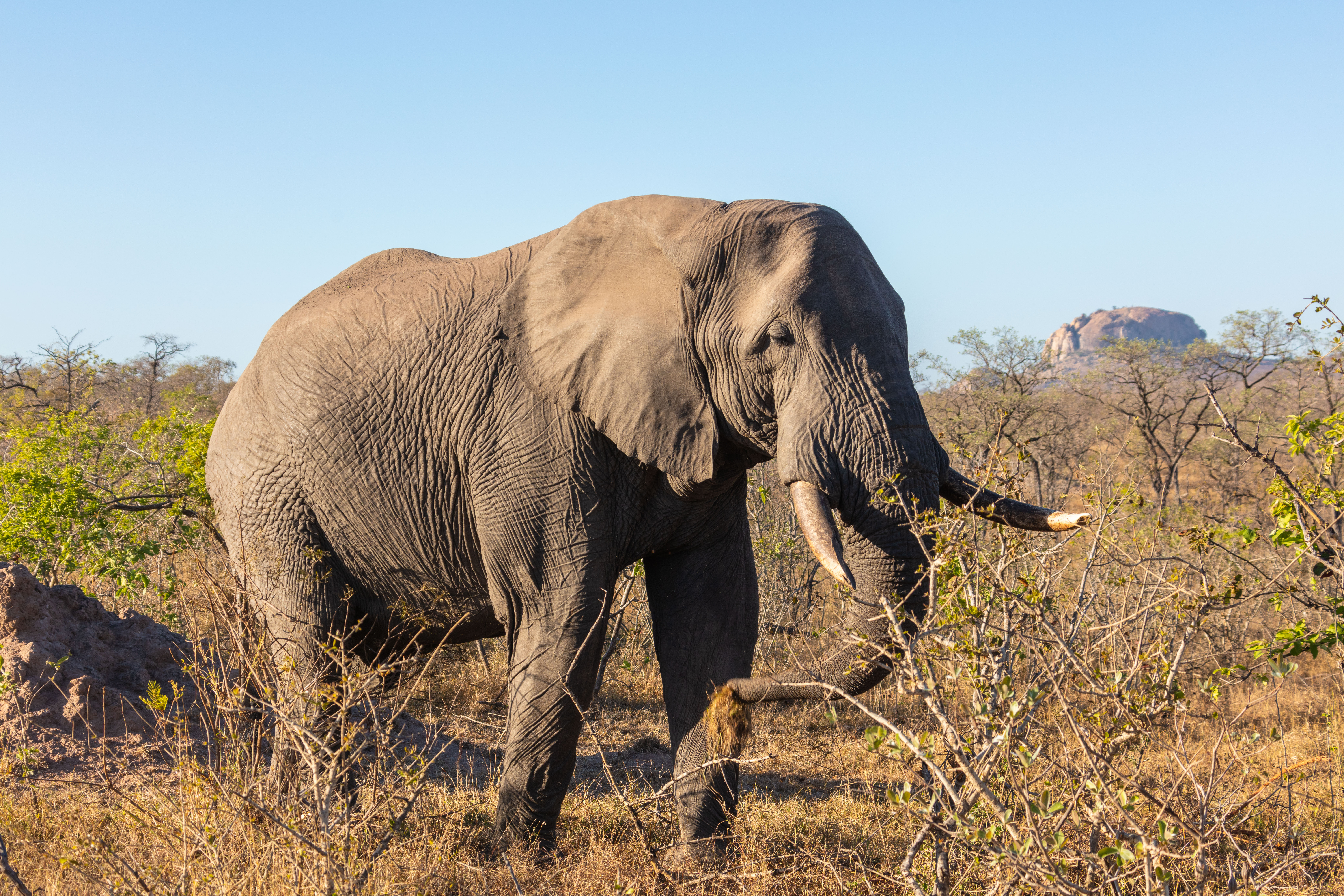 African bush elephant (Loxodonta africana), Kruger National Park, South Africa